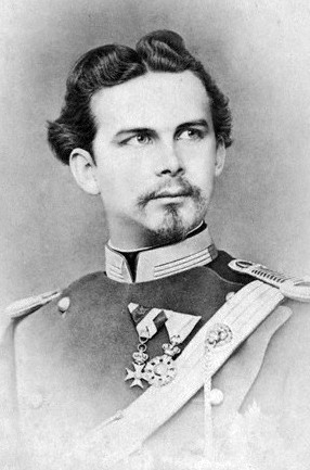 photograph of King Ludwig II of Bavaria